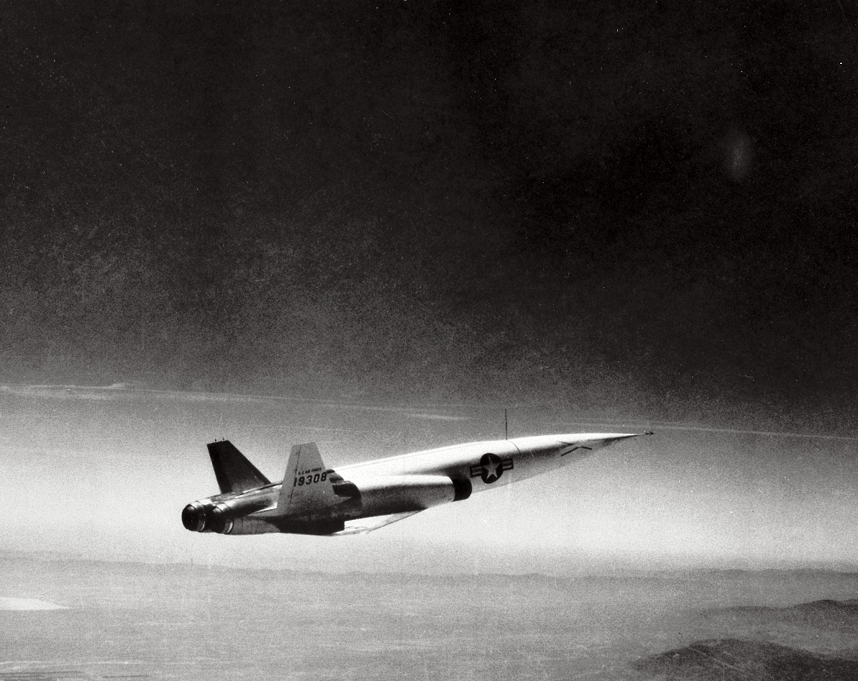 Navaho in flight, 1957. Navaho is a surface-to-surface missile developed by North American Aviation under the U.S. Air Force Navaho Program. The Navaho engine was an improvement of the V-2 engine. Though program began in March 1946 and was cancelled in July 1957, the research to develop the Navaho engine contributed to the development of the Redstone, Jupiter, Thor, and ATLAS engines.